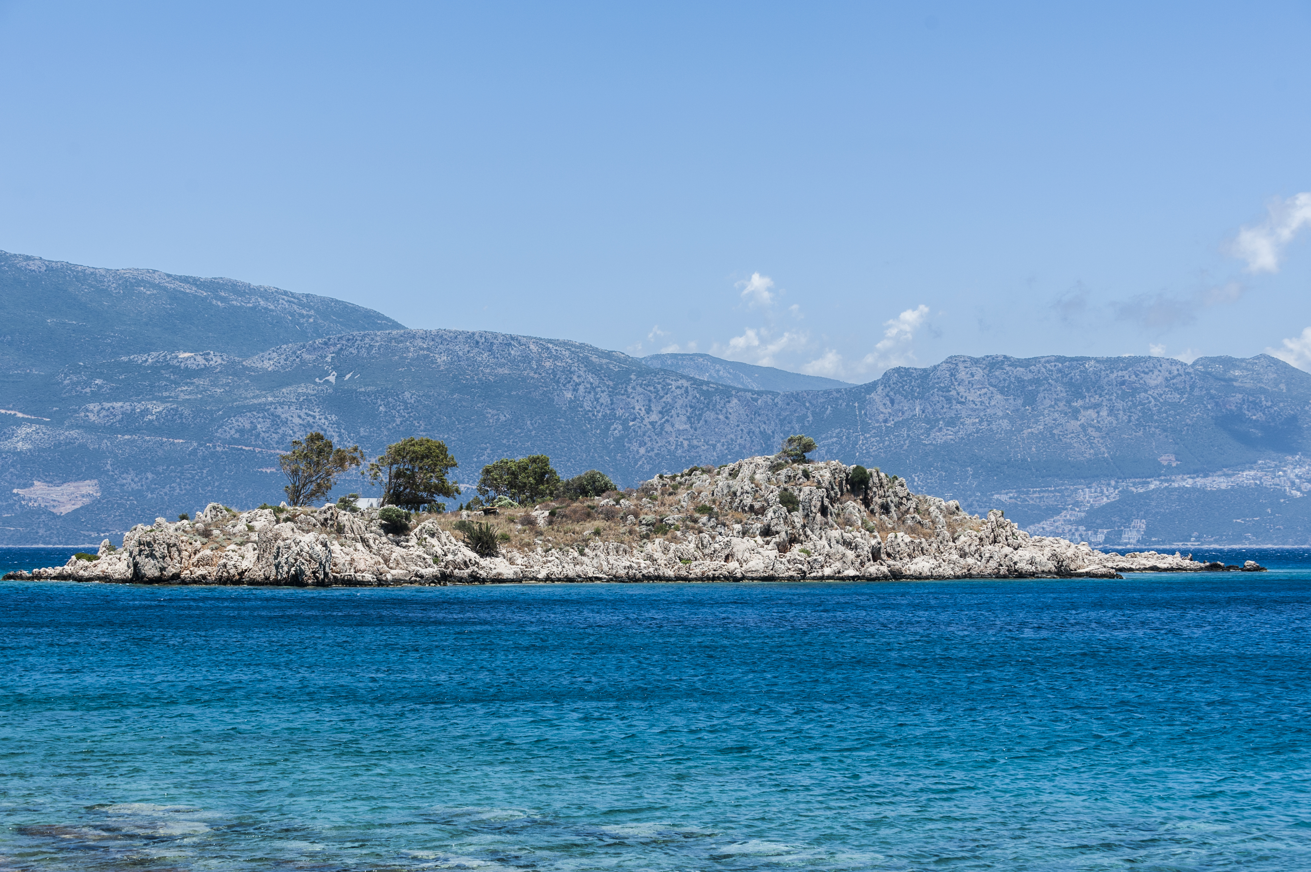 This is a photography of Natura 2000 protected area with ID GR4210004